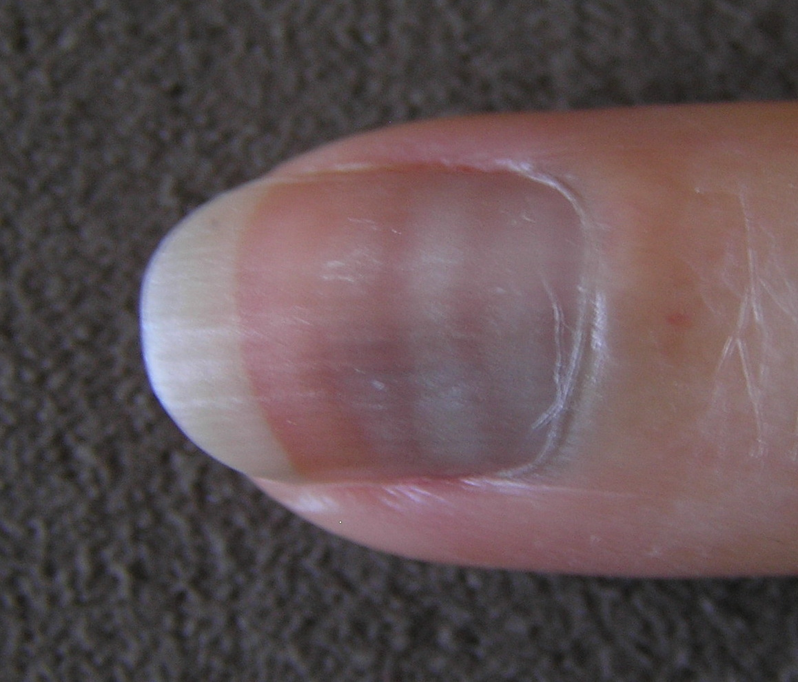 Mees' lines due to chemotherapy. Patient had received 4 triweekly infusions of AC (cyclophosphamide, doxorubicin). Lines were not ridged, and migrated outward with nail growth.